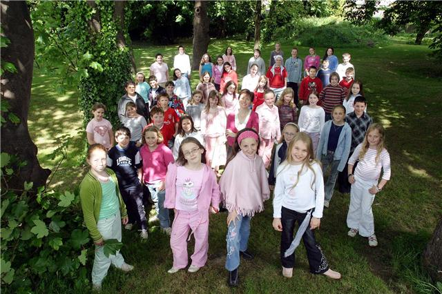 Picture of RTÉ Cór na nÓg